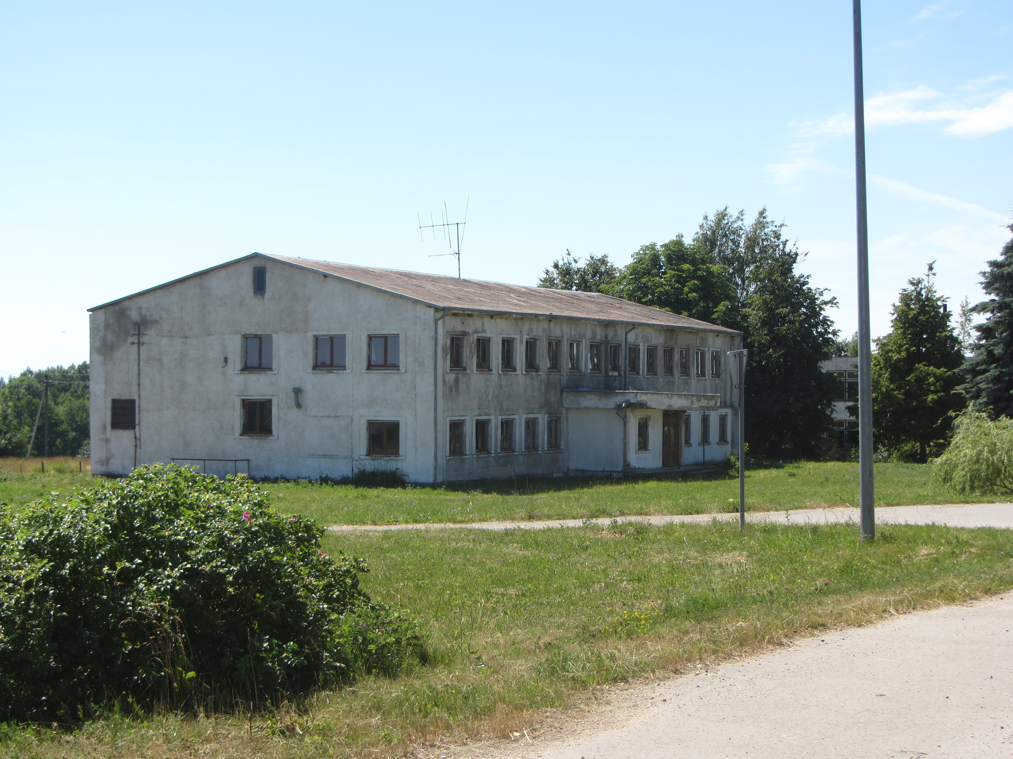 Nemaitonys, Lithuania